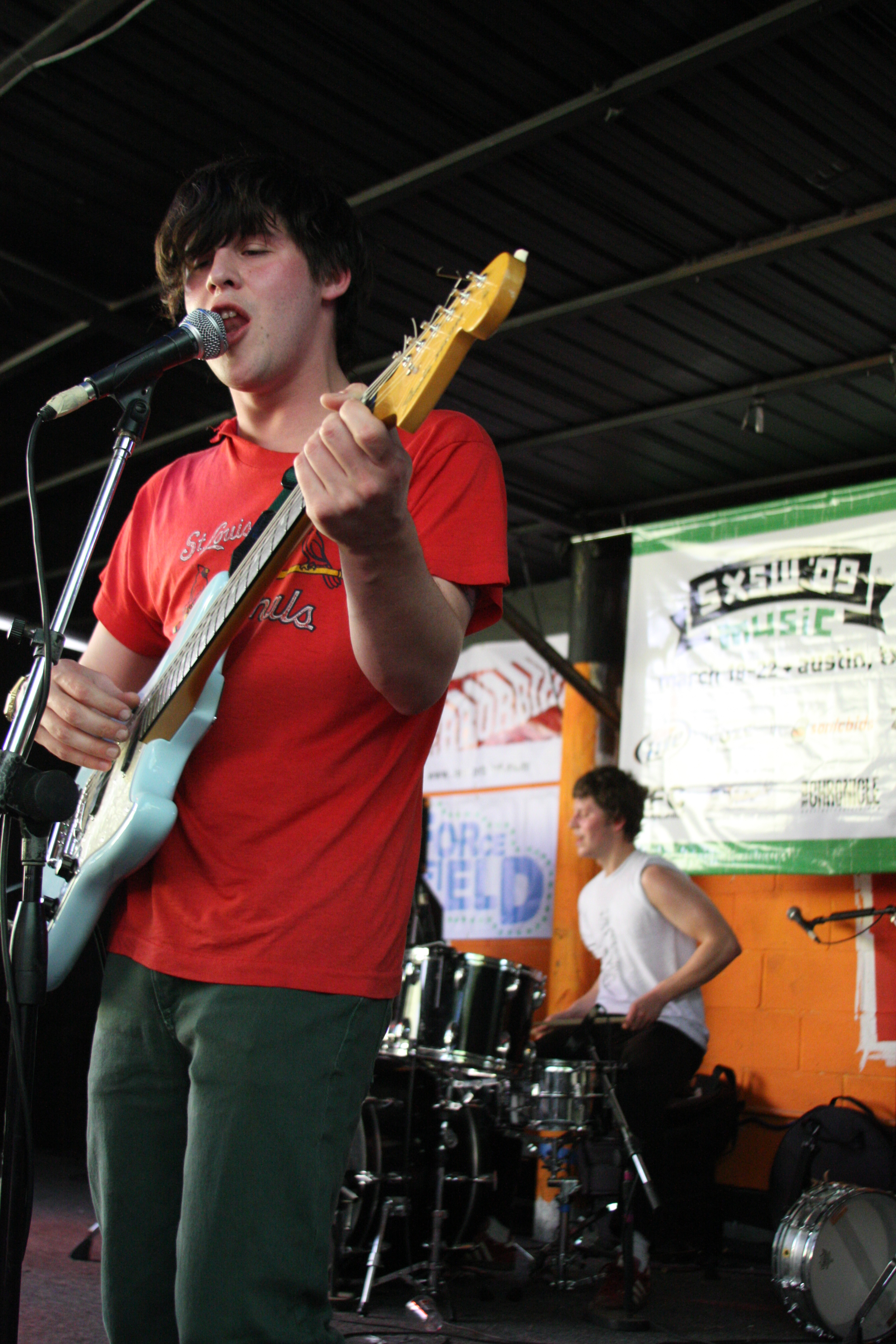 Photo by Shawn Hinojosa